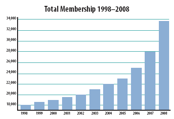 RCGP Membership growth between 1998-2008. Graph showing membership growth of RCGP between 1998-2008